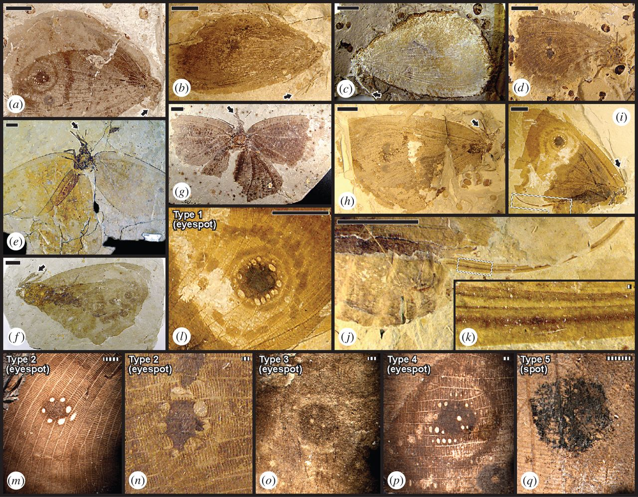 Figure 1: Kalligrammatid structural diversity. Specimens are from the late-Middle Jurassic Jiulongshan Fm. (JIU), China; Late Jurassic Karabastau Fm. (KAR), Kazakhstan; and mid-Early Cretaceous Yixian Fm. (YIX), China (electronic supplementary material, tables S2 and S3). At (a–i) are nine species showing general habitus [11]. Arrows indicate proboscis tips. (a) Kalligramma circularia (JIU); (b) Affinigramma myrioneura (JIU); (c) A. myrioneura (JIU); (d) Kallihemerobius feroculus (JIU); (e) Oregramma aureolusa (YIX); (f) Ithigramma multinervia (YIX); (g) Abrigramma calophleba (JIU); (h) Kalligramma brachyrhyncha (JIU); and (i) Oregramma illecebrosa (YIX). (i–k) Lateral views of ovipositor structure in O. illecebrosa above: (i) intact specimen; (j) complete ovipositor and posteriormost abdominal segments; and (k) lateral valve pairs. (l–q): five kalligrammatid wing eyespot and spot types detailed in figures 2 and 3; electronic supplementary material, figure S1. (l) Type 1 wing eyespot with two outer rings and ca 15 contiguous ocules surrounding a central pigmented disc (O. illecebrosa, YIX); (m) Type 2 wing eyespot with a single outer ring, light-hued inner area, and uninterrupted, pigmented central disc with surrounding, non-contiguous ocules (Kallihemerobius almacellus, JIU); (n) Type 2 eyespot similar to (M) (Kallihemerobius feroculus, JIU); (o) Type 3 wing eyespot with a light-hued circular area and a few, variably sized ocules in a darkly pigmented central disc (Ithigramma multinervia, YIX); (p) Type 4 wing eyespot contains a few ocules and others surrounding a pigmented central disc, a light-hued inner area and surrounding, dark outermost ring (K. circularia, JIU); and (q) Type 5 wing spot of a circular, pigmented central disc (Kallihemerobius aciedentatus, JIU). Scale bars: solid, 10 mm; striped, 1 mm.